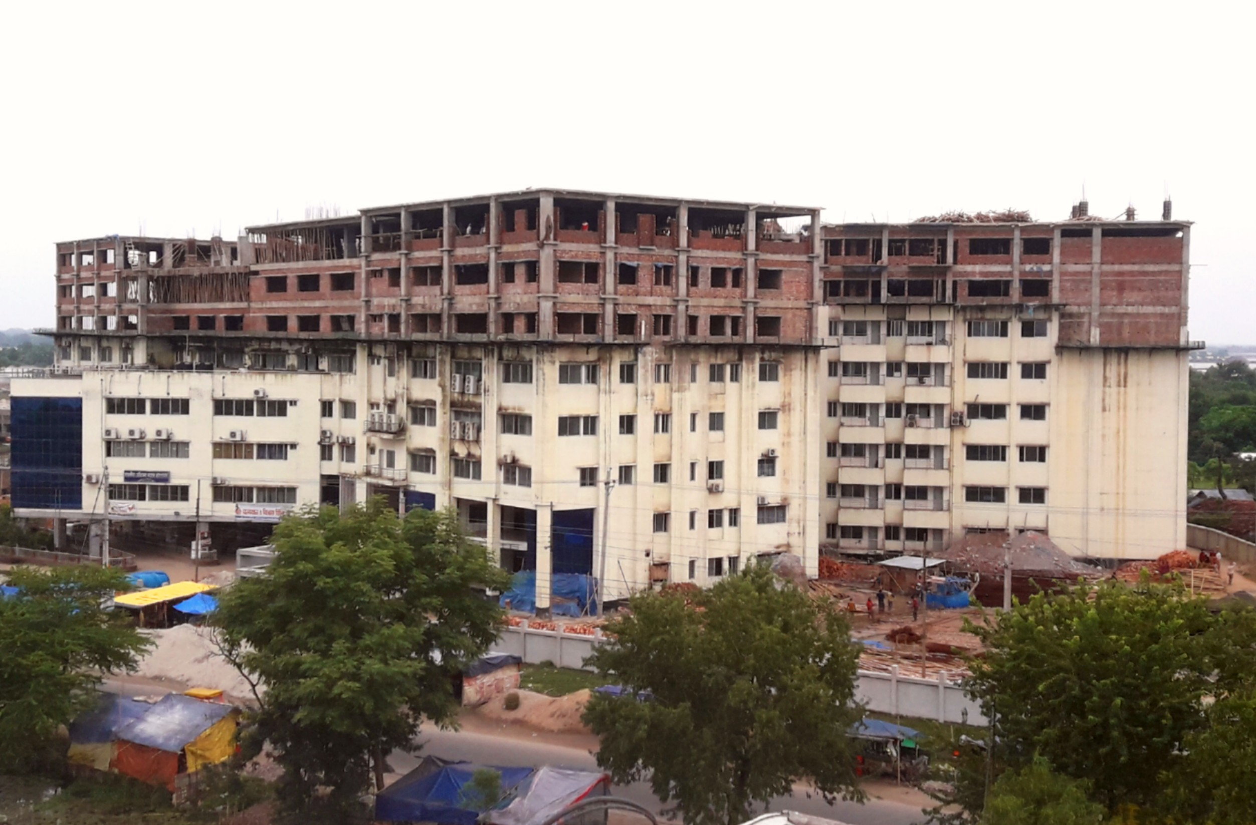 SMCH;Oct,18